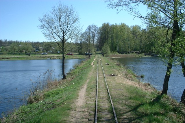 Poland, dam on Topilo Lake